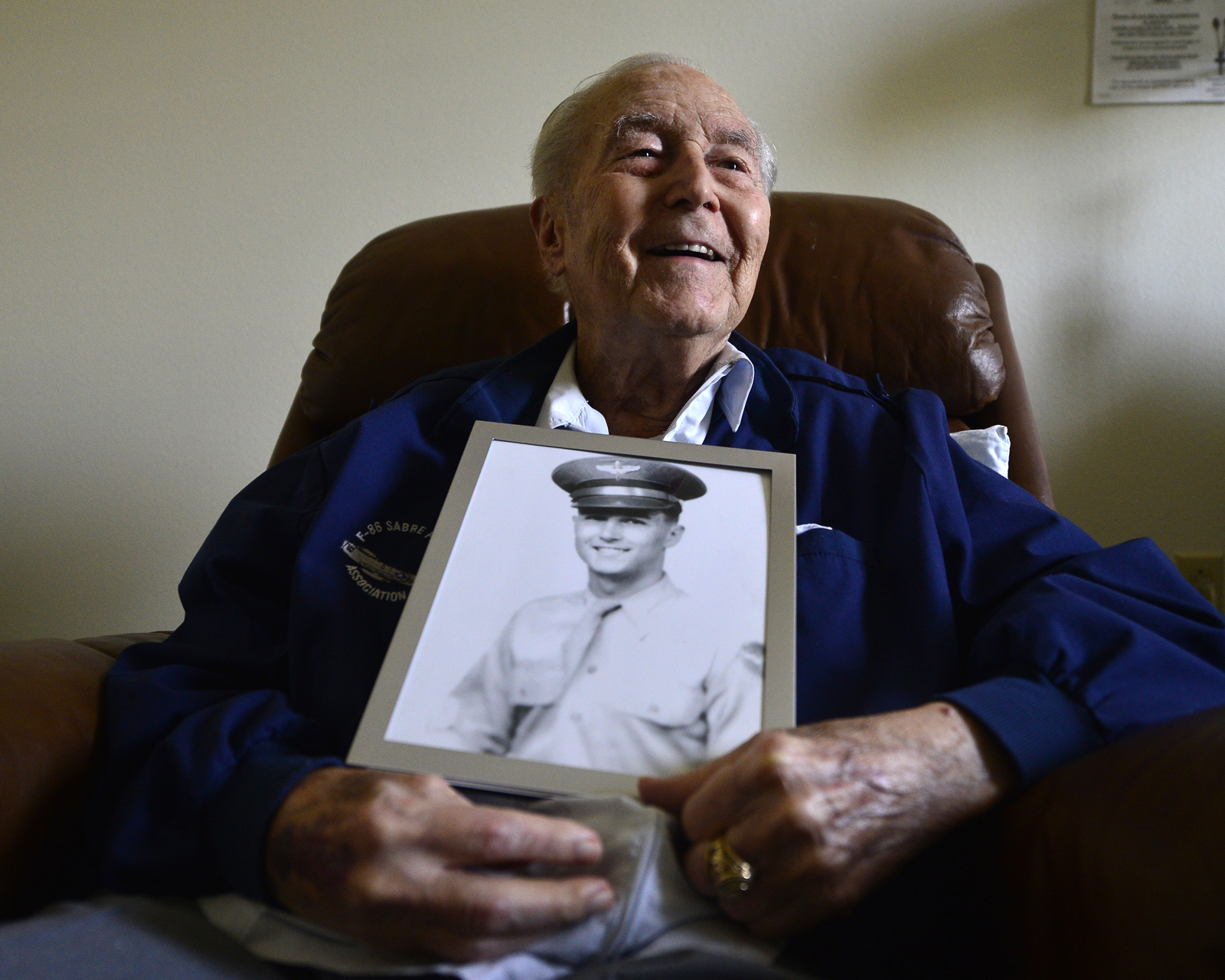 Retired Col. Ralph Parr holds a portrait of himself as he looks toward the window of his room. Parr joined the Army Air Forces and began pilot training in 1942. He flew the P-38 Lightning in World War II and the F-86 Sabre during the Korean and Vietnam Wars. He was the only military member to be awarded the Distinguished Service Cross and the Air Force Cross. In total, Parr flew 641 combat missions, serving in three wars. He was medically retired on Oct. 17, 1976. (U.S. Air Force photo/Staff Sgt. Vernon Young Jr.)